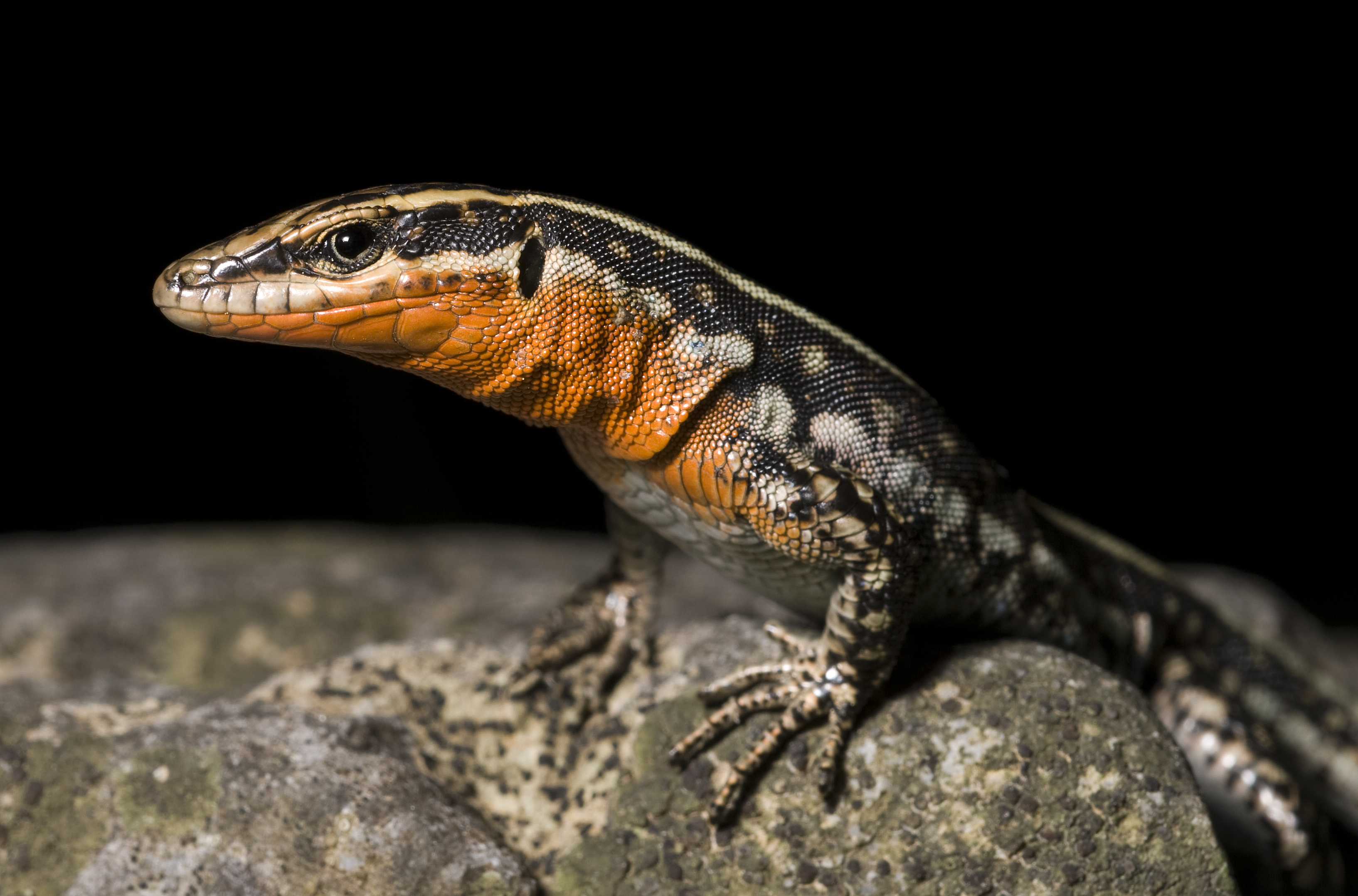 Oertzeni's Rock Lizard (Anatololacerta oertzeni) from Rhodos